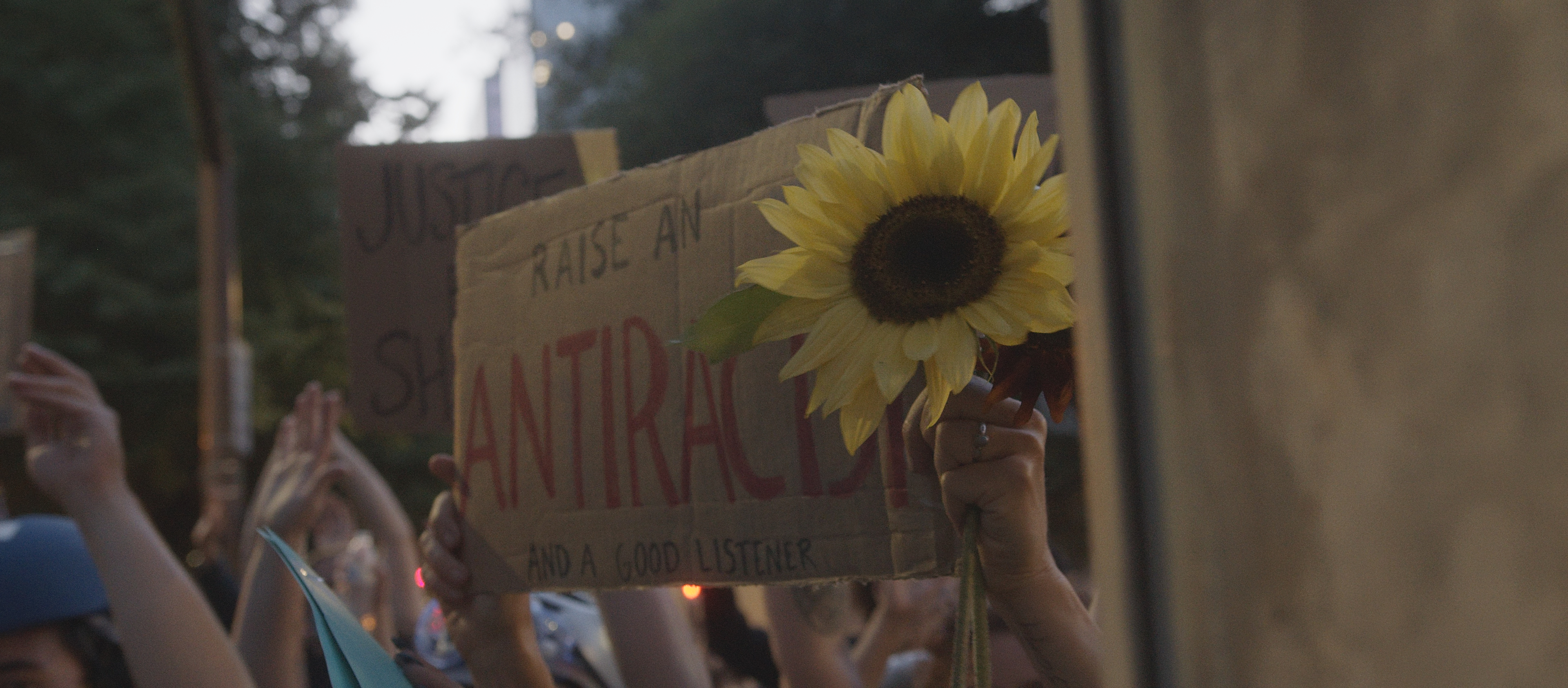 Portland Protests: day 50